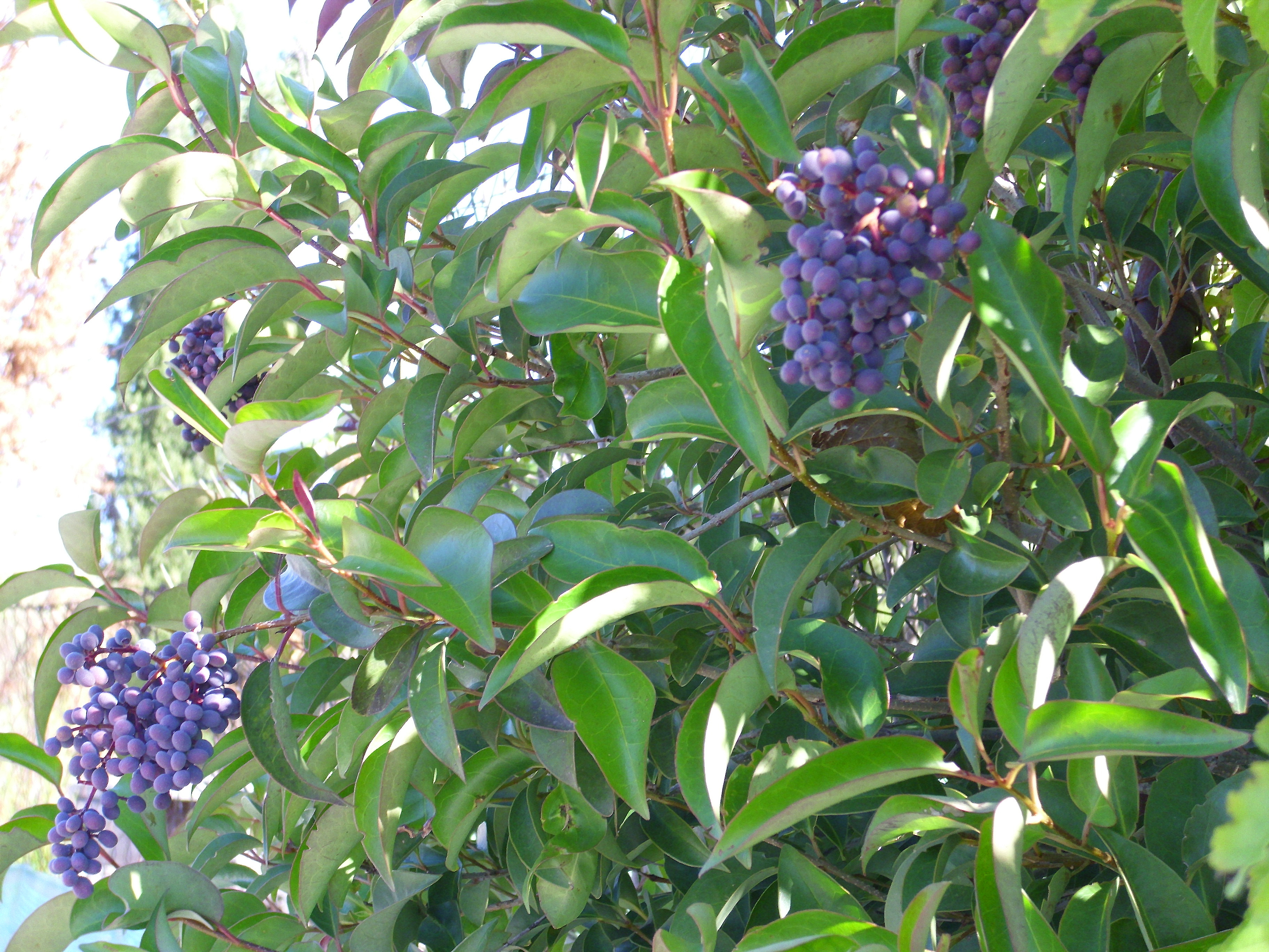 Ligustrum lucidum fruits close up, Parque Gasset (Ciudad Real), Spain